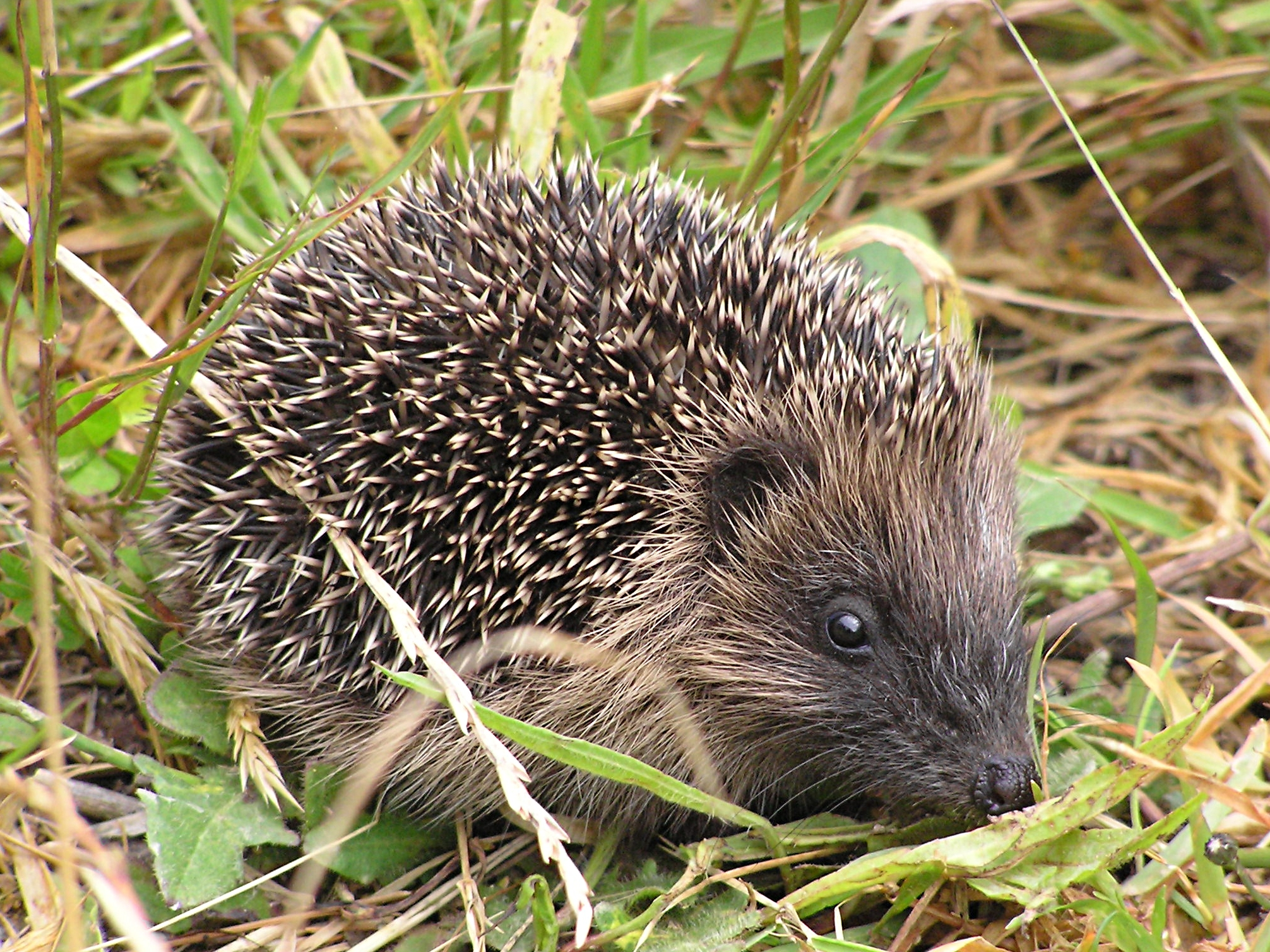 Young hedgehog out during the day. Karori, Wellington, New Zealand.